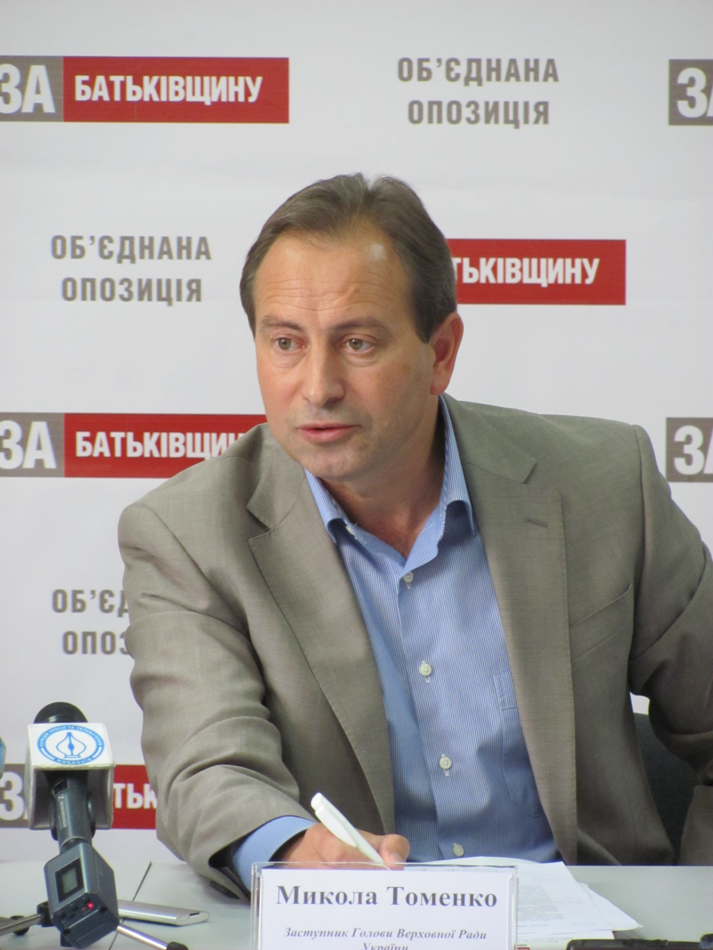 Mykola Tomenko at the press conference of Arseniy Yatsenyuk in Mykolaiv.